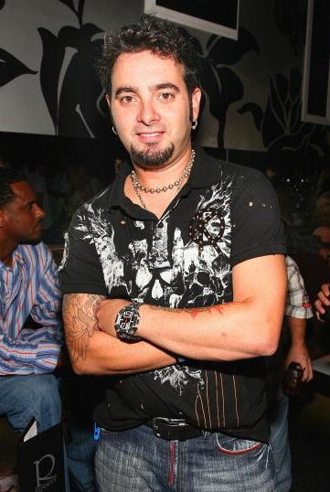 Chris Kirkpatrick at a screening of Mission: Manband in NYC on Aug6 2007.